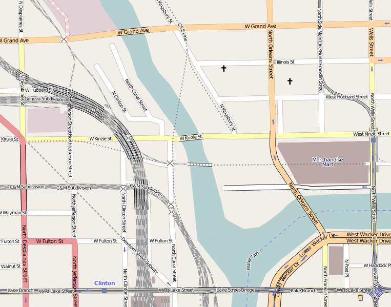 This map may be incomplete, and may contain errors. Don't rely solely on it for navigation.